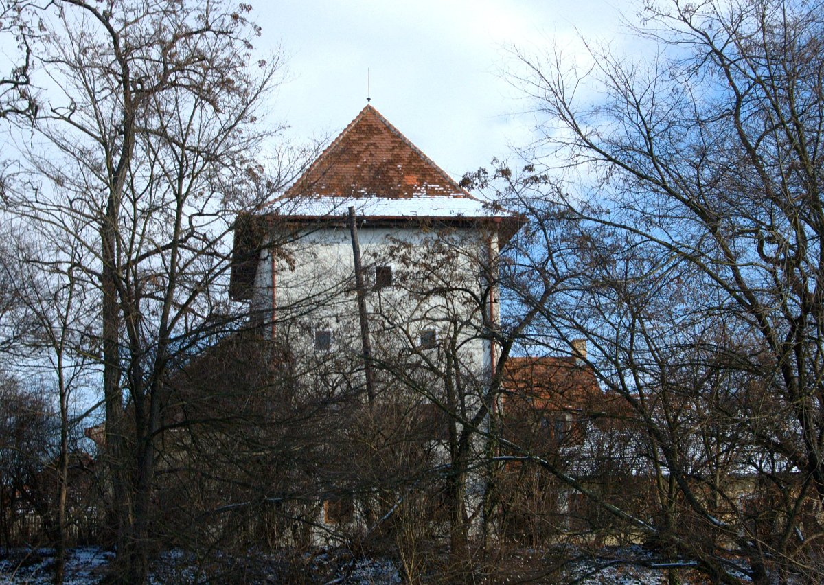 Manor in Žabokreky nad Nitrou